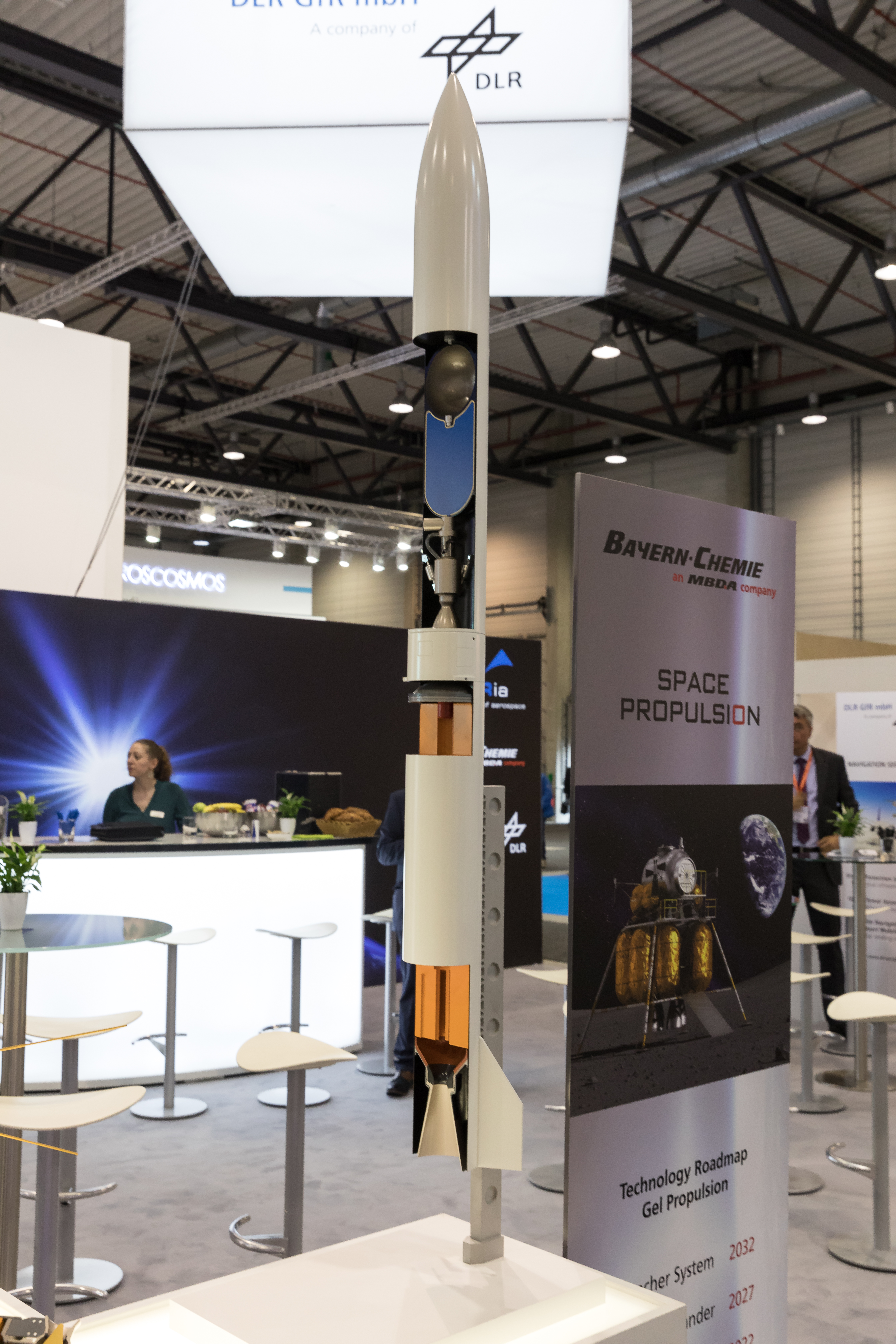 ILA 2018